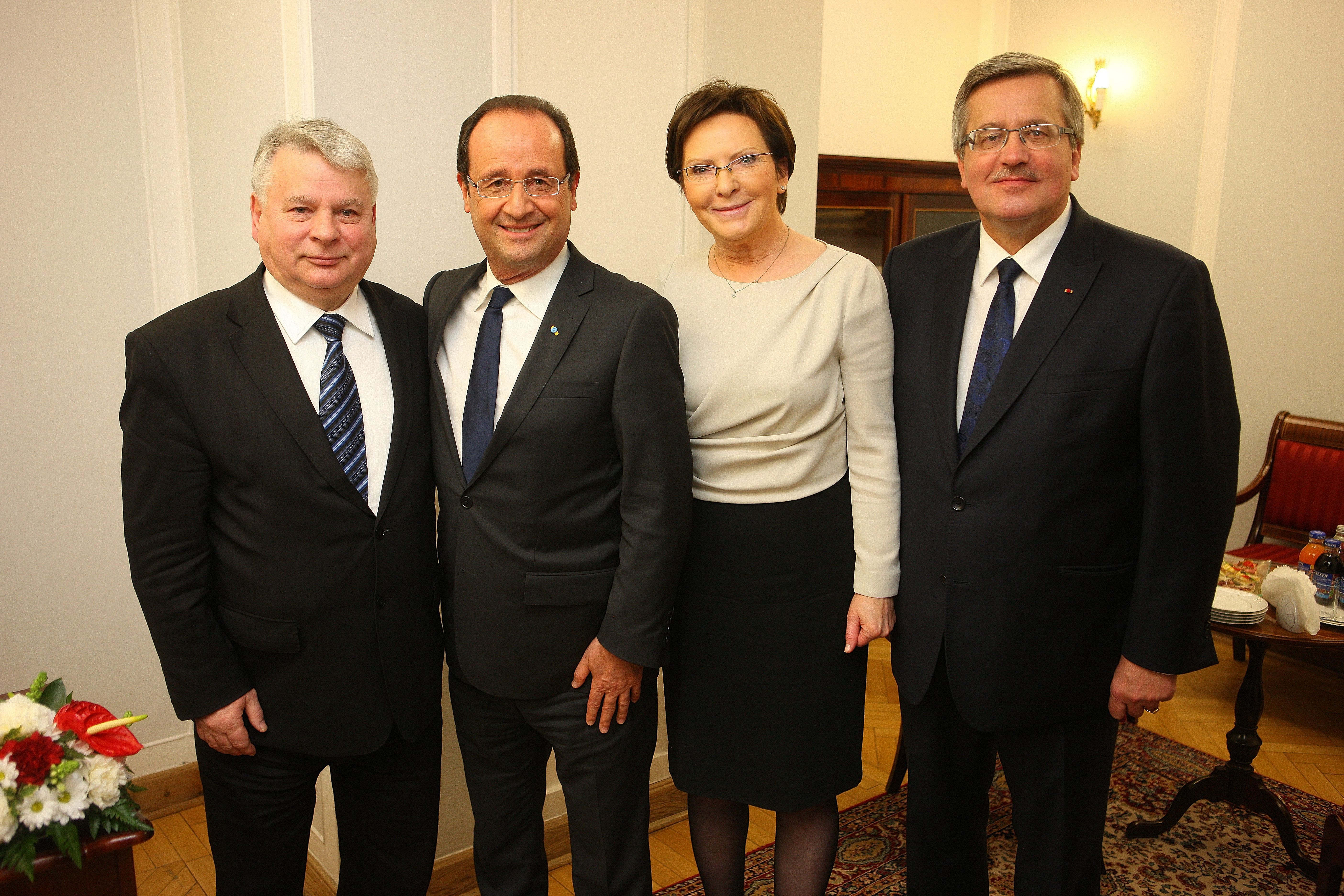 Marshal of the Senate Bogdan Borusewicz, President of France François Hollande, Marshal of the Sejm Ewa Kopacz and President of Poland Bronisław Komorowski